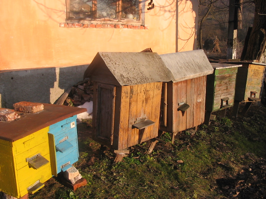 Beehives in village Pidvysoke, Berezhany district, Ternopil Oblast, western Ukraine.